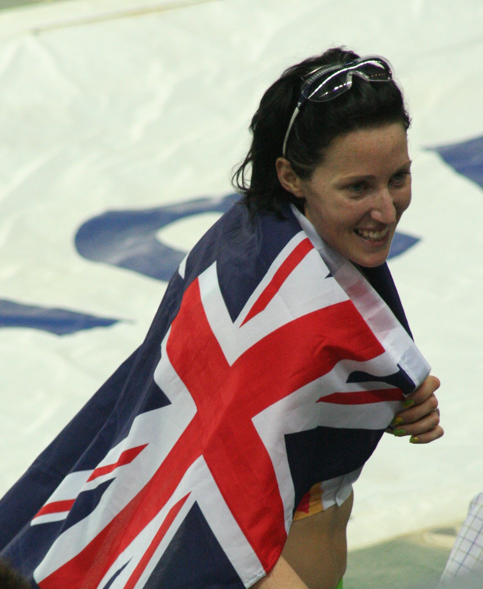 World Athletics Championships 2007 in Osaka - 400 metres hurdles winner Jana Rawlingson celebrating her victory